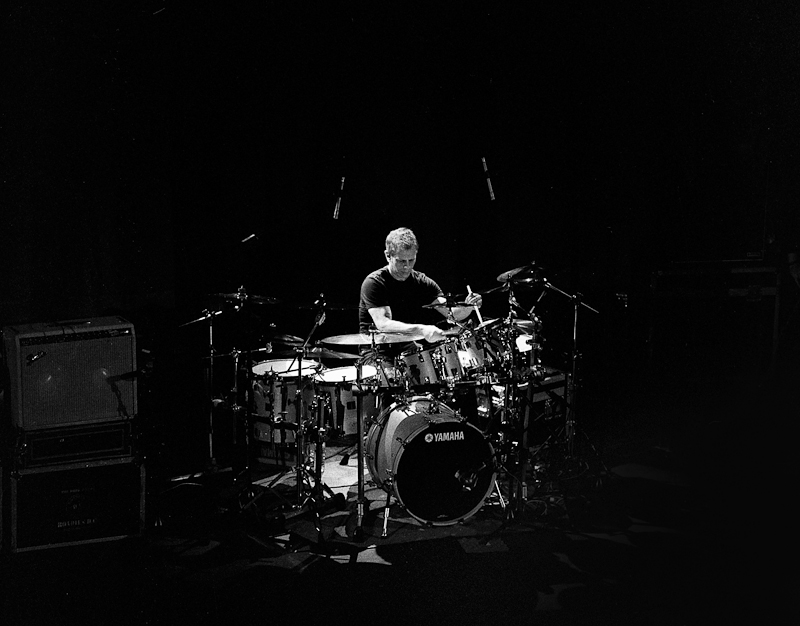 Dave Weckl live with the Mike Stern Band, 27th October 09, Cinema São Jorge, Lisbon, Portugal. Mamiya M645 1000s Mamiya-Sekor 4 210mm Ilford Delta 3200 Professional at 3200 Developed in Ilford ID-11 Scanned with Canon 8800f